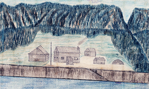 Illustration drawn in 1884 by Willis Everette. University of Alaska Fairbanks, Dr. Willis Everette collection #1976-91